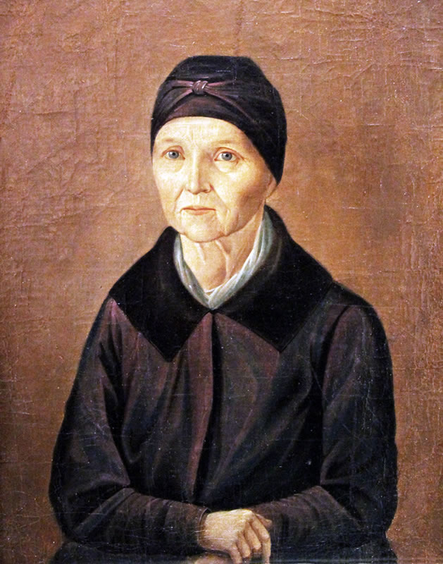 Alexander Pushkin's nanny Arina Yakovlev. Portrait by an unknown artist.